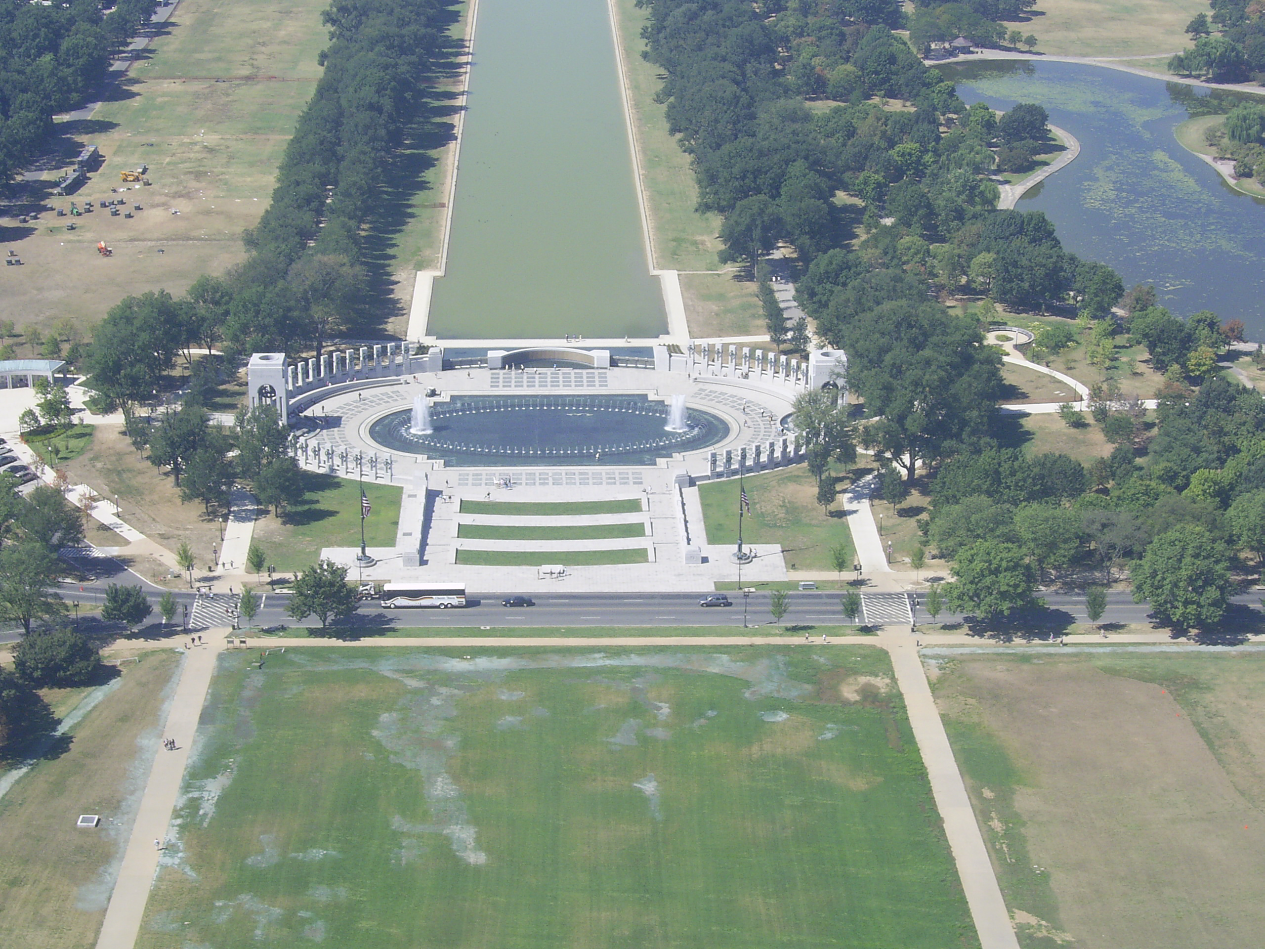 WWII-Memorial (von der Spitze des Washington-Monument aus gesehen), WWII Memorial (seen from the top of the Washington Monument)